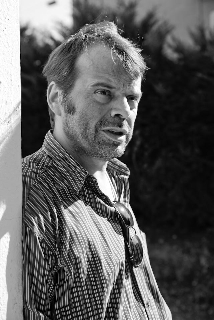 Johannes Boesiger